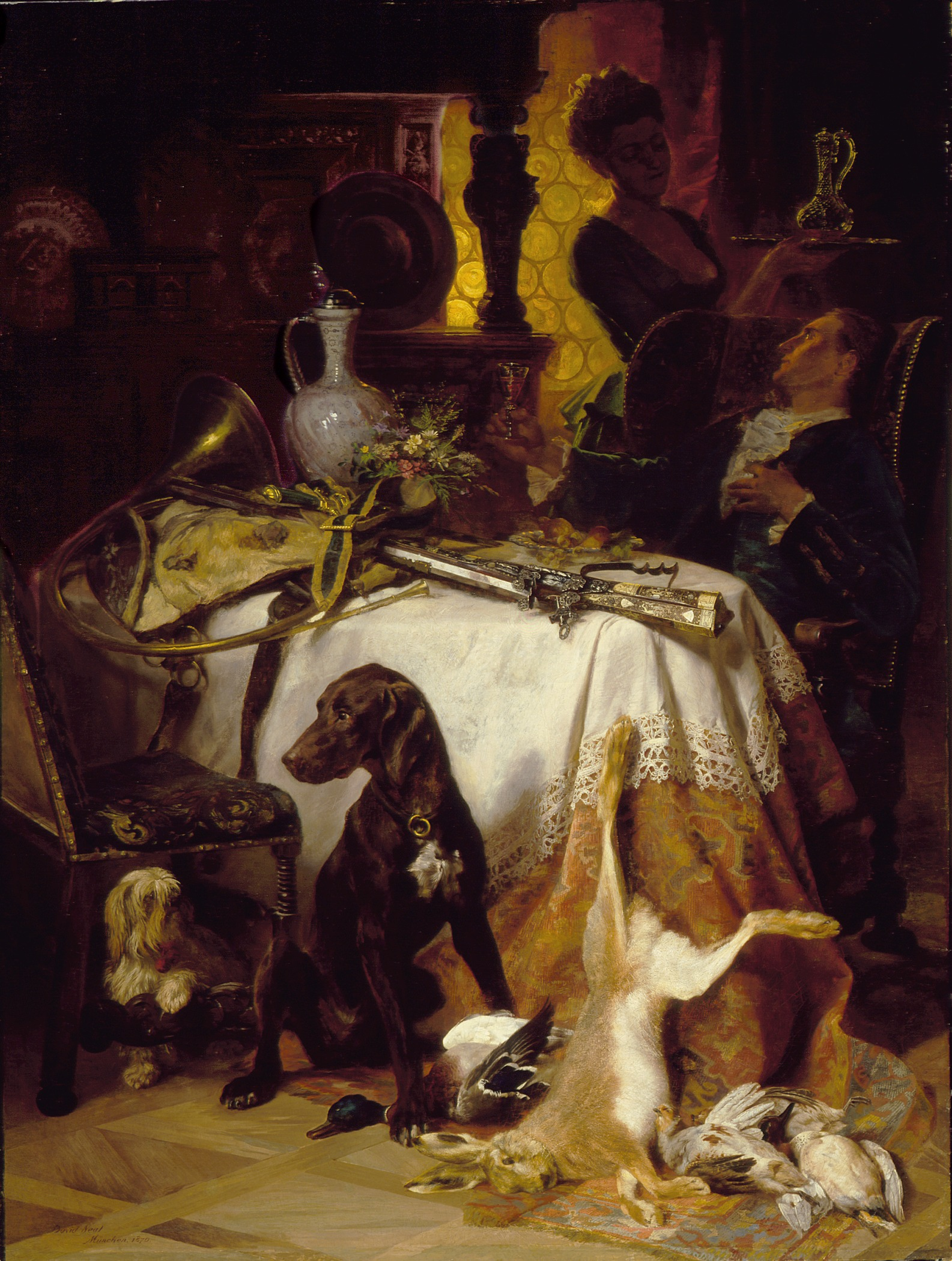 United States, 1870 Paintings Oil on canvas Gift of Mr. and Mrs. Will Richeson, Jr. (M.72.103.1) American Art